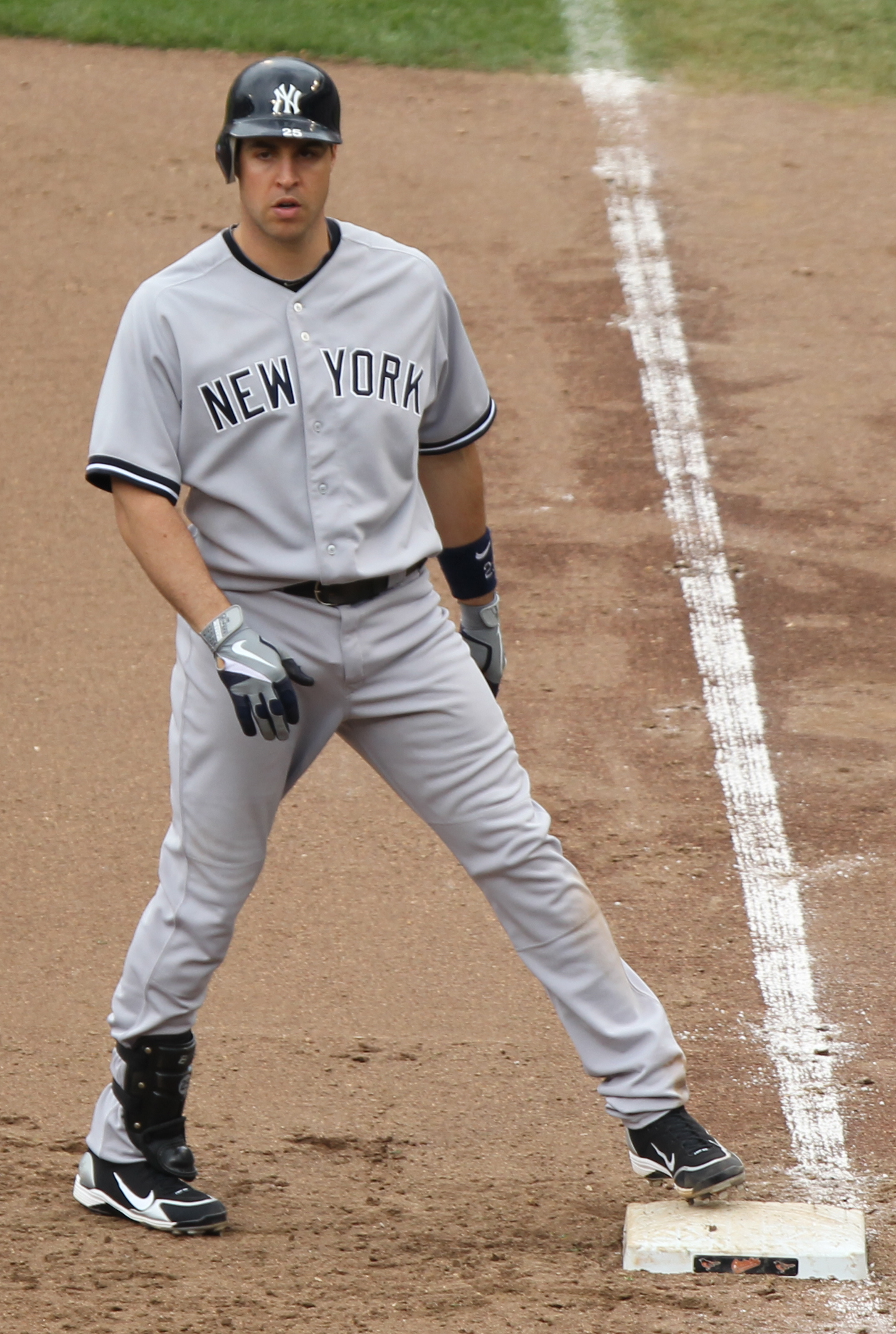 Mark Teixeira stands on first base during a game between the New York Yankees and Baltimore Orioles on April 24, 2011.